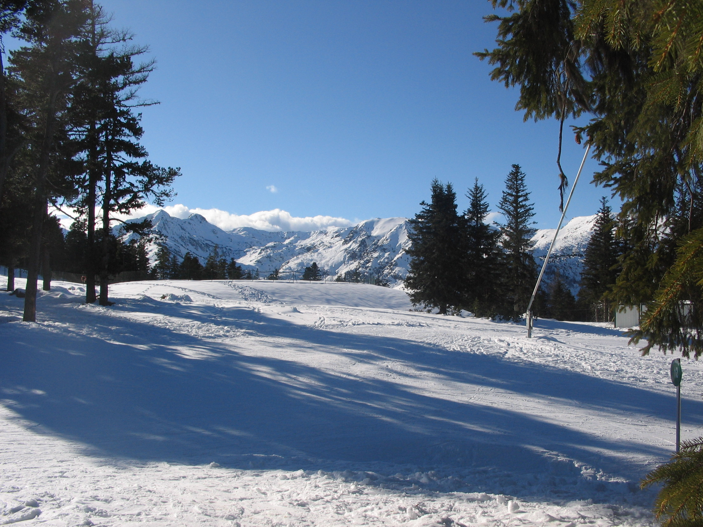 Ax 3 Domaines